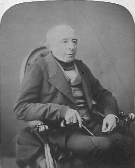 Photograph of Philip Hardwick, architect.